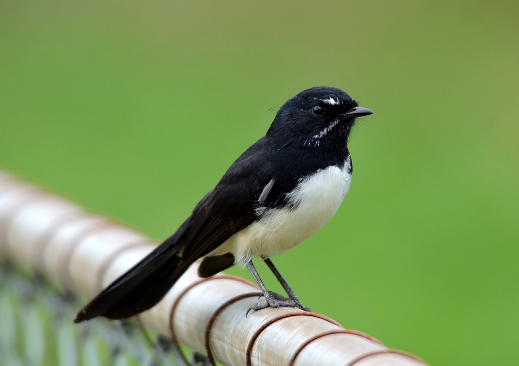 Willie Wagtail (Rhipidura leucophrys) in Brisbane, Queensland, Australia